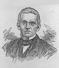 Martin W. Bates of Delaware (1786-1869)